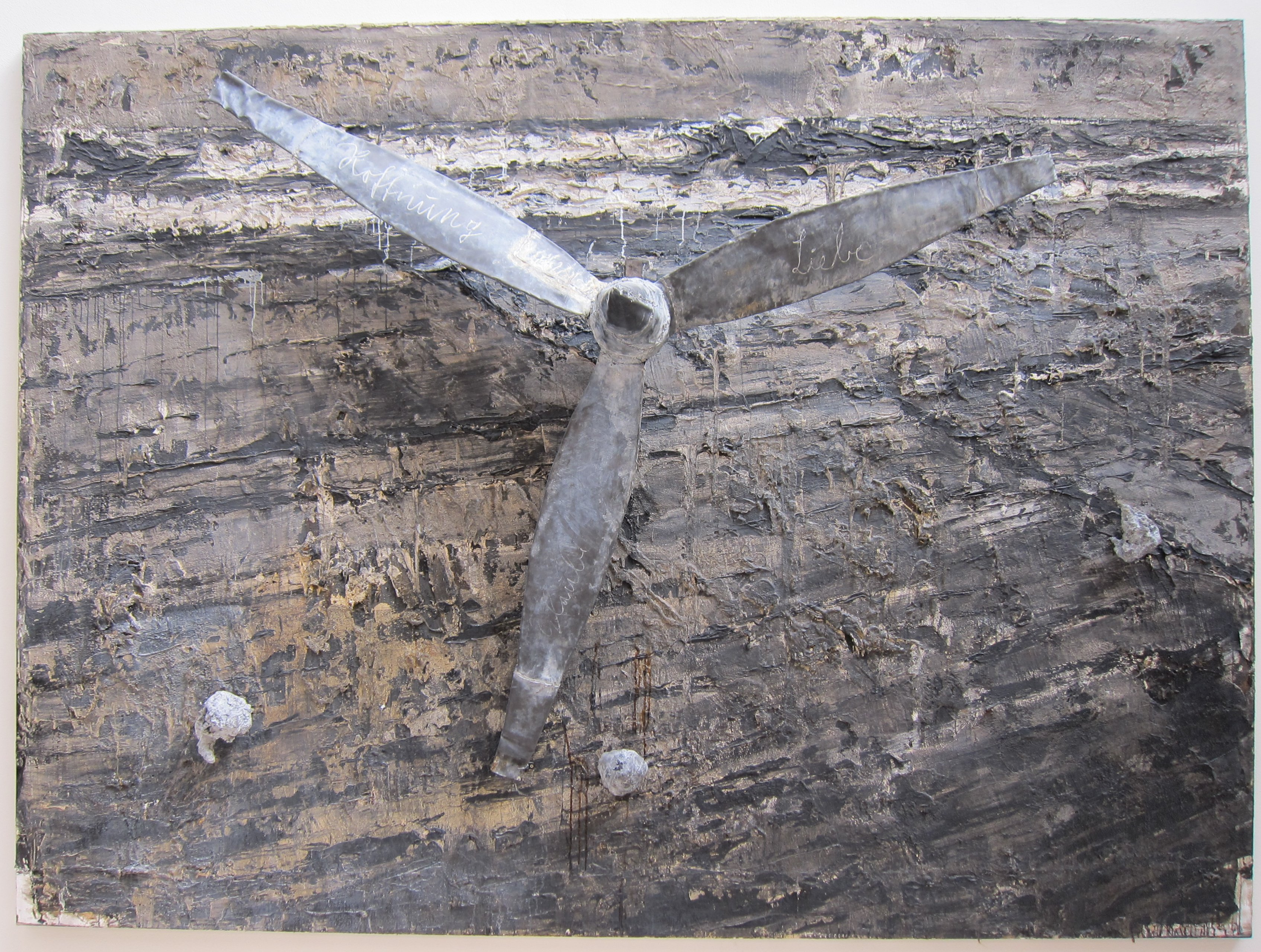 Glaube, Hoffnung, Liebe, emulsion, synthetic polymer paint, shellac on photodocument paper on linen canvas with lead construction by Anselm Kieffer, 1984-6, Art Gallery of New South Wales.